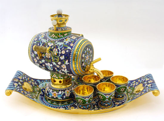 This Golden Samovar -made of Russian Silver & Enamel, from The Russian Silver & Enamel Collection